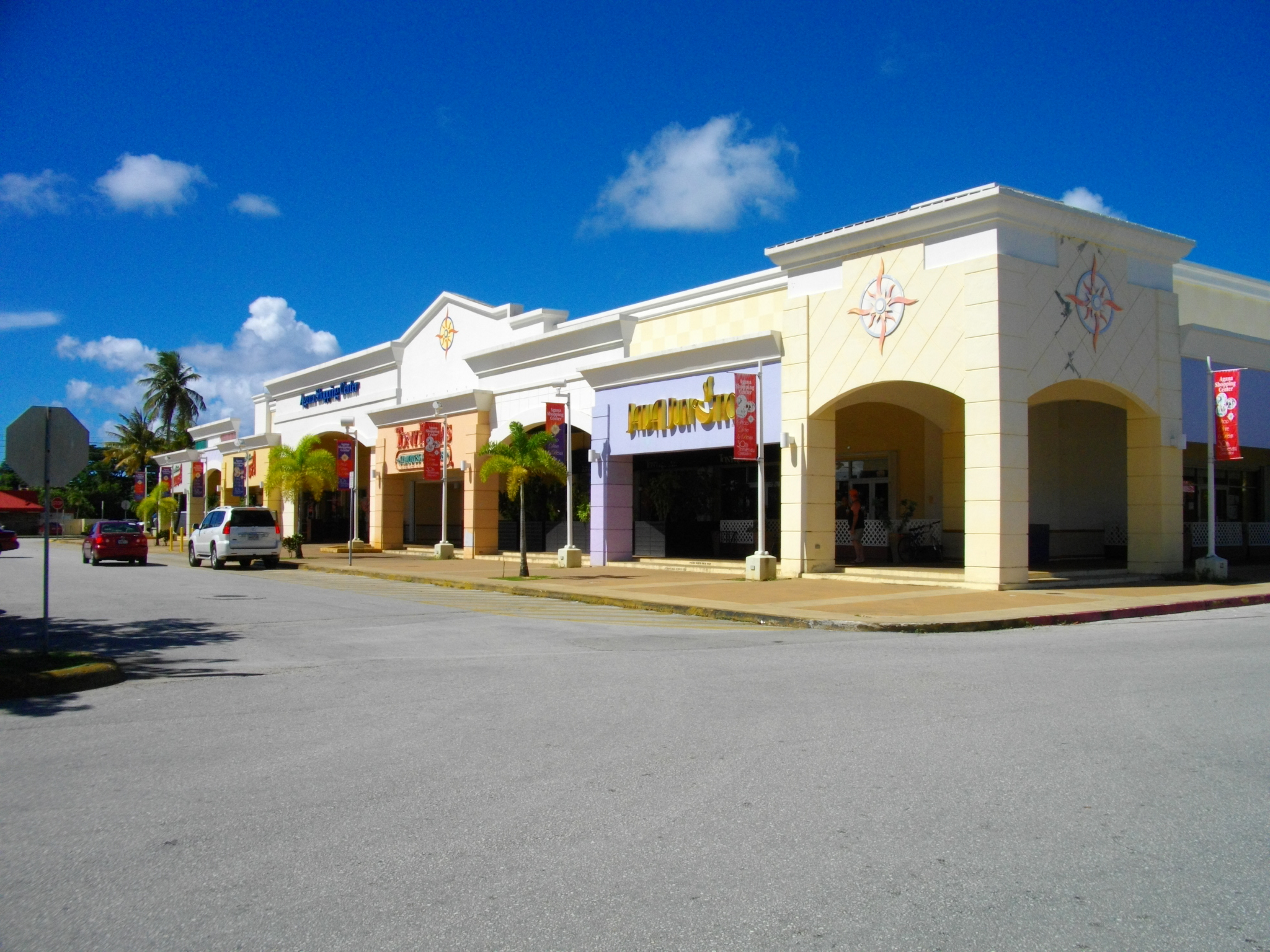 Agana Shopping Center